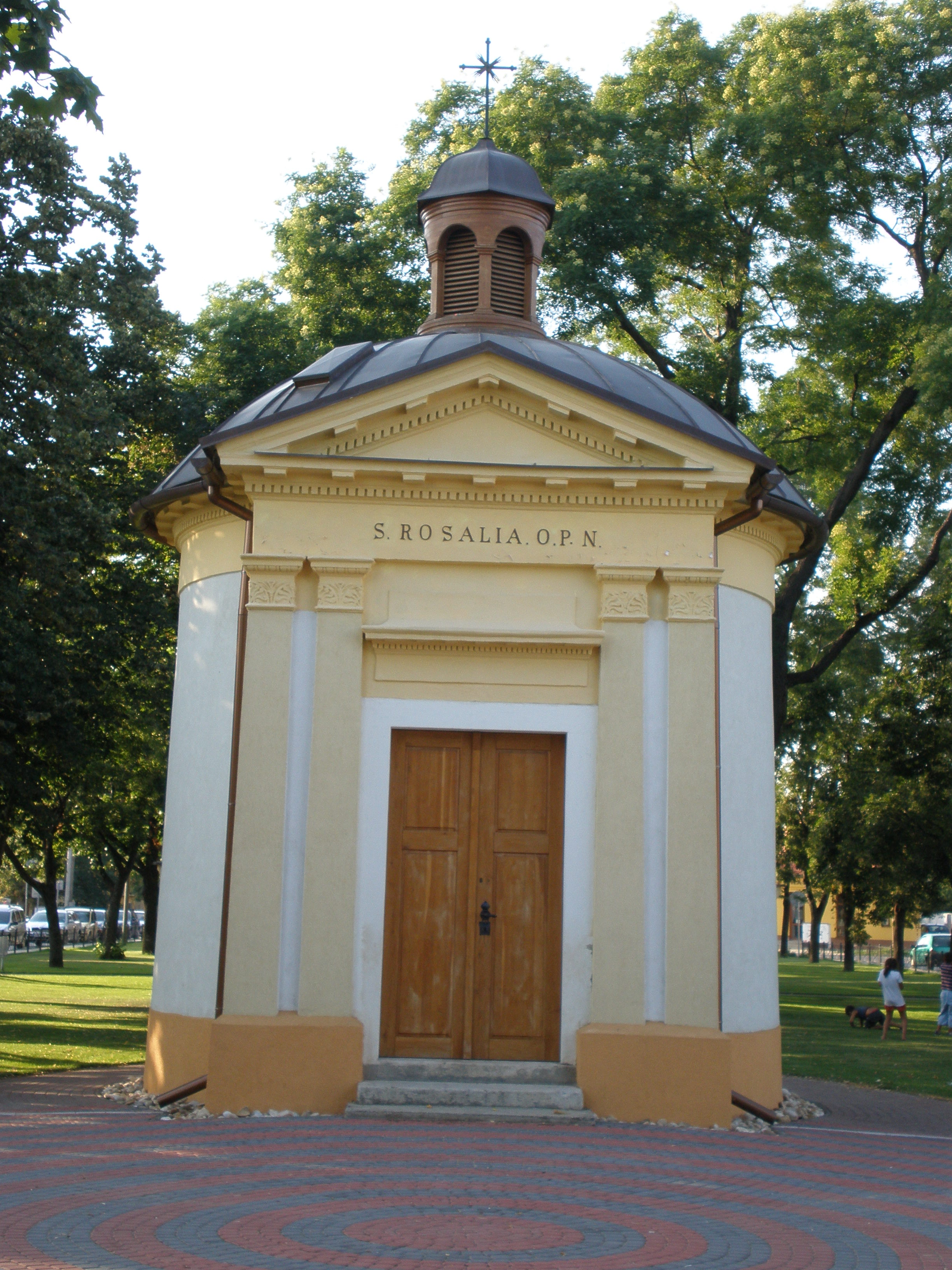 Chapel in Ivanka